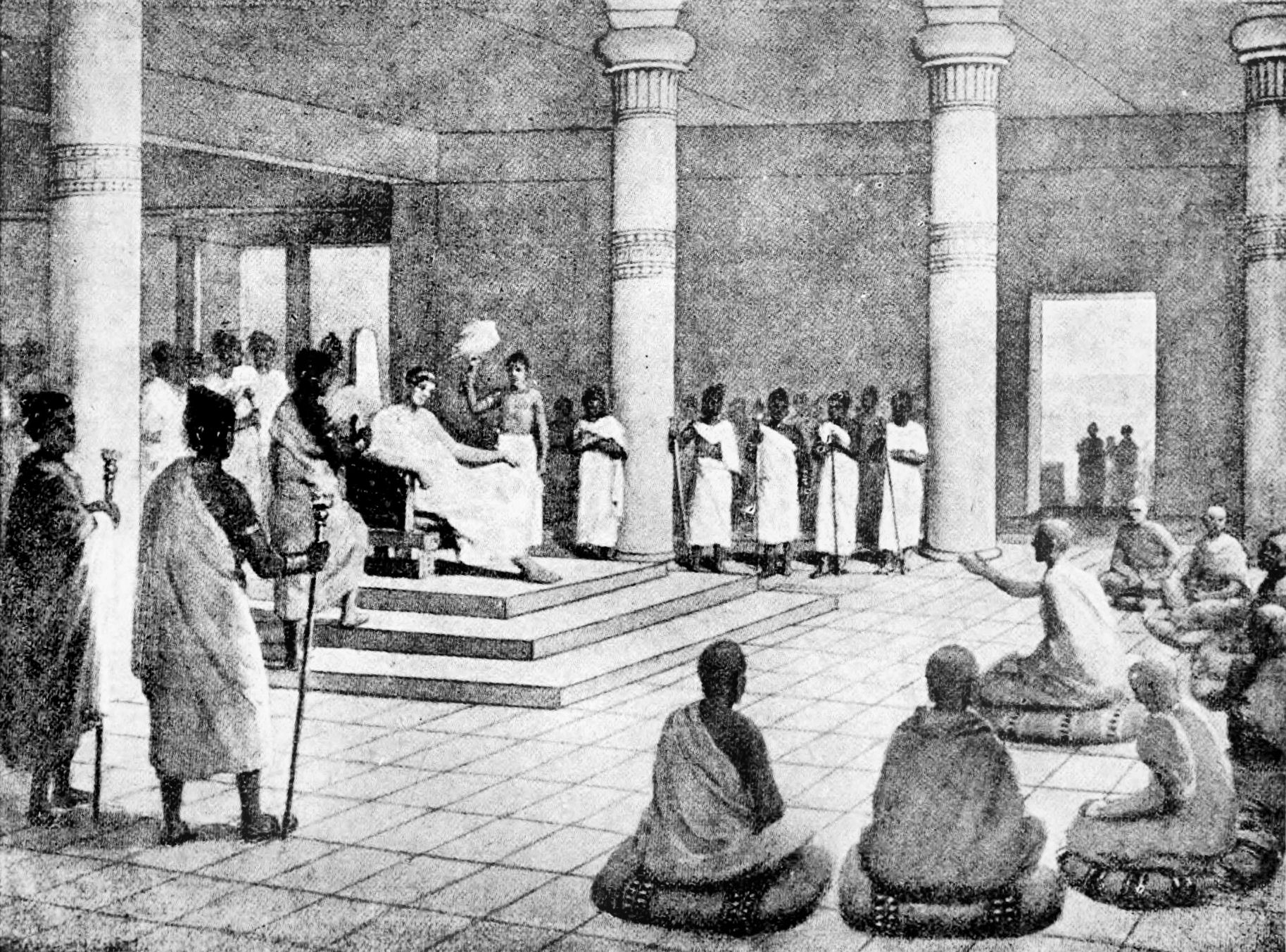 King Milinda ask questions. From Hutchinson's story of the nations, containing the Egyptians, the Chinese, India, the Babylonian nation, the Hittites, the Assyrians, the Phoenicians and the Carthaginians, the Phrygians, the Lydians, and other nations of Asia Minor.